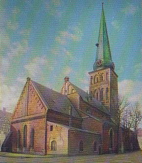 St. James Cathedral in Riga, Latvia (from Latvian postage stamp)